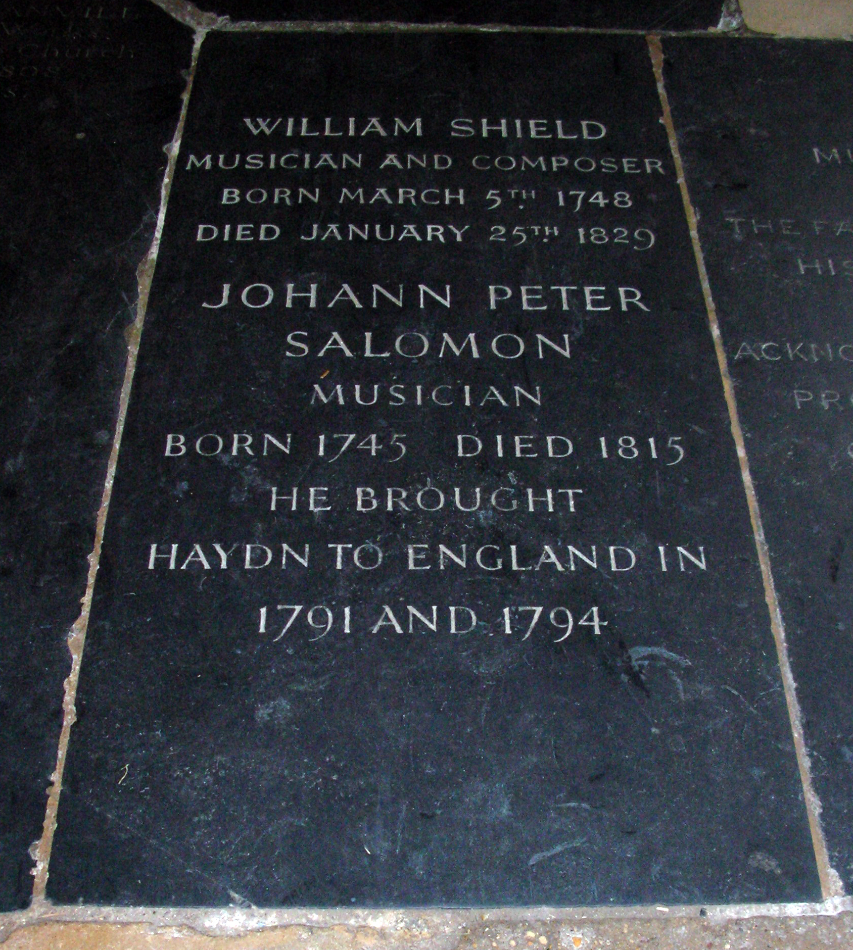 Memorial stone to William Shield and Johann Peter Salomon, buried together in the south cloister of Westminster Abbey, London, England.